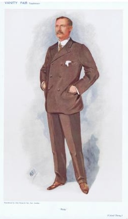 Caricature of John Denny in Vanity Fair 10 August 1910. Caption read "Philip"